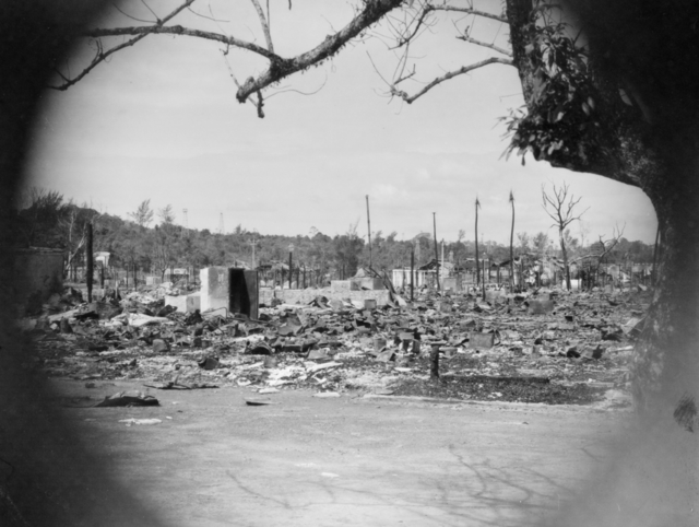 A SECTION OF THE TOWN THAT WAS WRECKED AND BURNED OUT DURING THE ALLIED PRE INVASION BOMBARDMENT OF THE AREA.